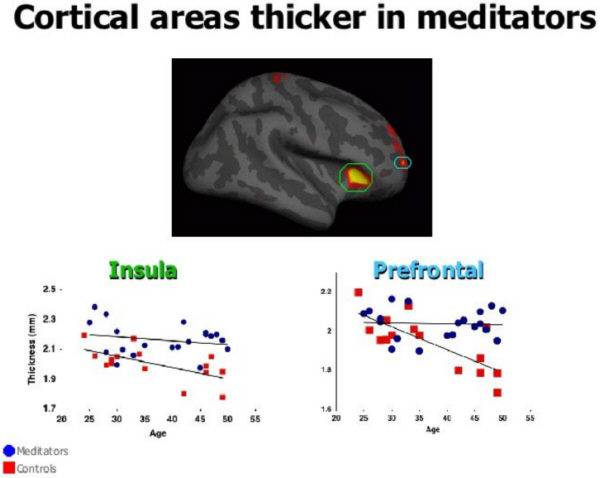 Brain areas that are thicker in practitioners of Insight meditation than control subjects who do not meditate. Graphs show age and cortical thickness of each individual, red= control subjects, blue = meditators.